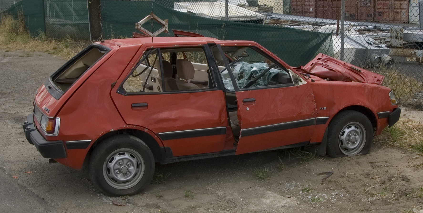 Out the back of Docklands is this damaged car. What some bored Vandals do. The car is a 1984–1986 Mitsubishi Colt (RC) GL 5-door hatchback.